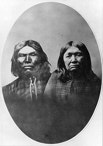 Klallam chief, Chits-a-man-han & his wife; 1884. NOTES The Klallam peoples (also spelled Clallam or S'Klallam) occupied the northern and eastern coasts of Washington's Olympic Peninsula, from near Neah Bay to the Hood Canal. Nearly 444,000 acres of Klallam land were ceded to the United States in the 1855 Treaty of Point No Point. Groups of Klallam people continue to live in the Port Gamble, Jamestown, and Elwha areas. This photo, probably from the 1880s, shows Klallam Chief Chits-A-Man-Han and his wife. REPRODUCTION NUMBER SHS 13,489